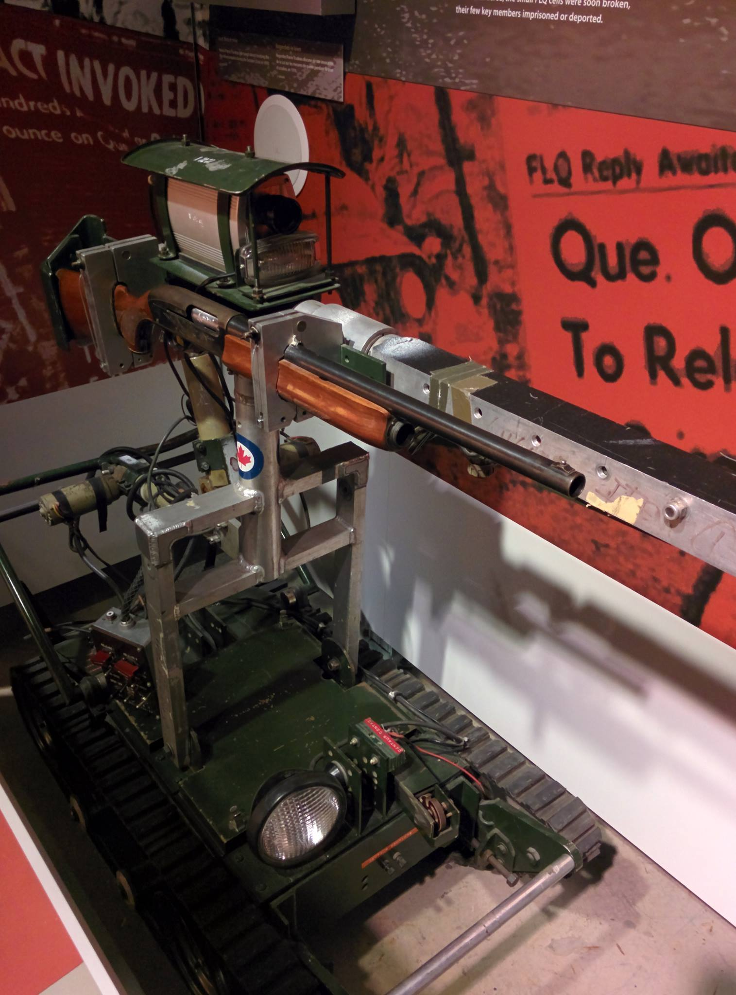 Canadian Forces (CF) robot from the october crisis in 1970.